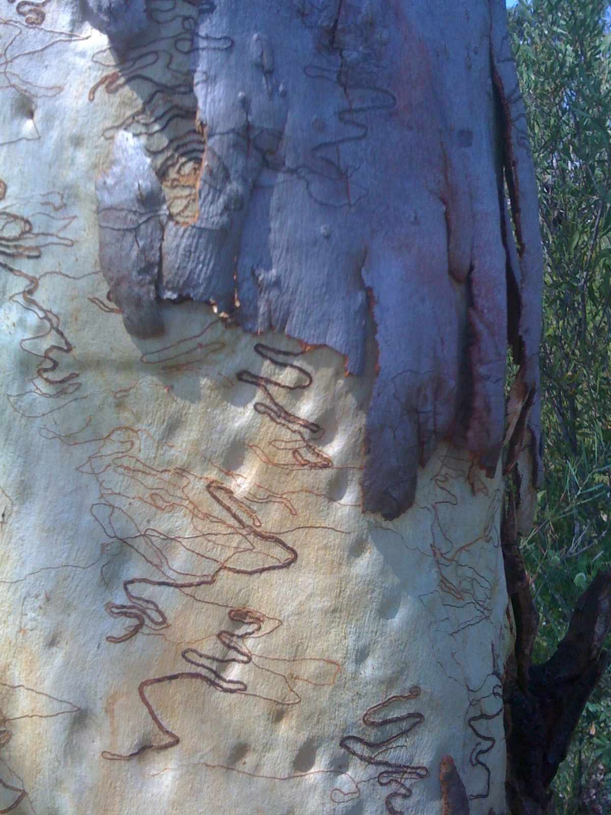 A Scribbly gum (Eucalyptus haemastoma) sheds its bark to reveal this years fresh set of scribbles. Dharawal Nature Reserve, NSW Australia, December 2008.